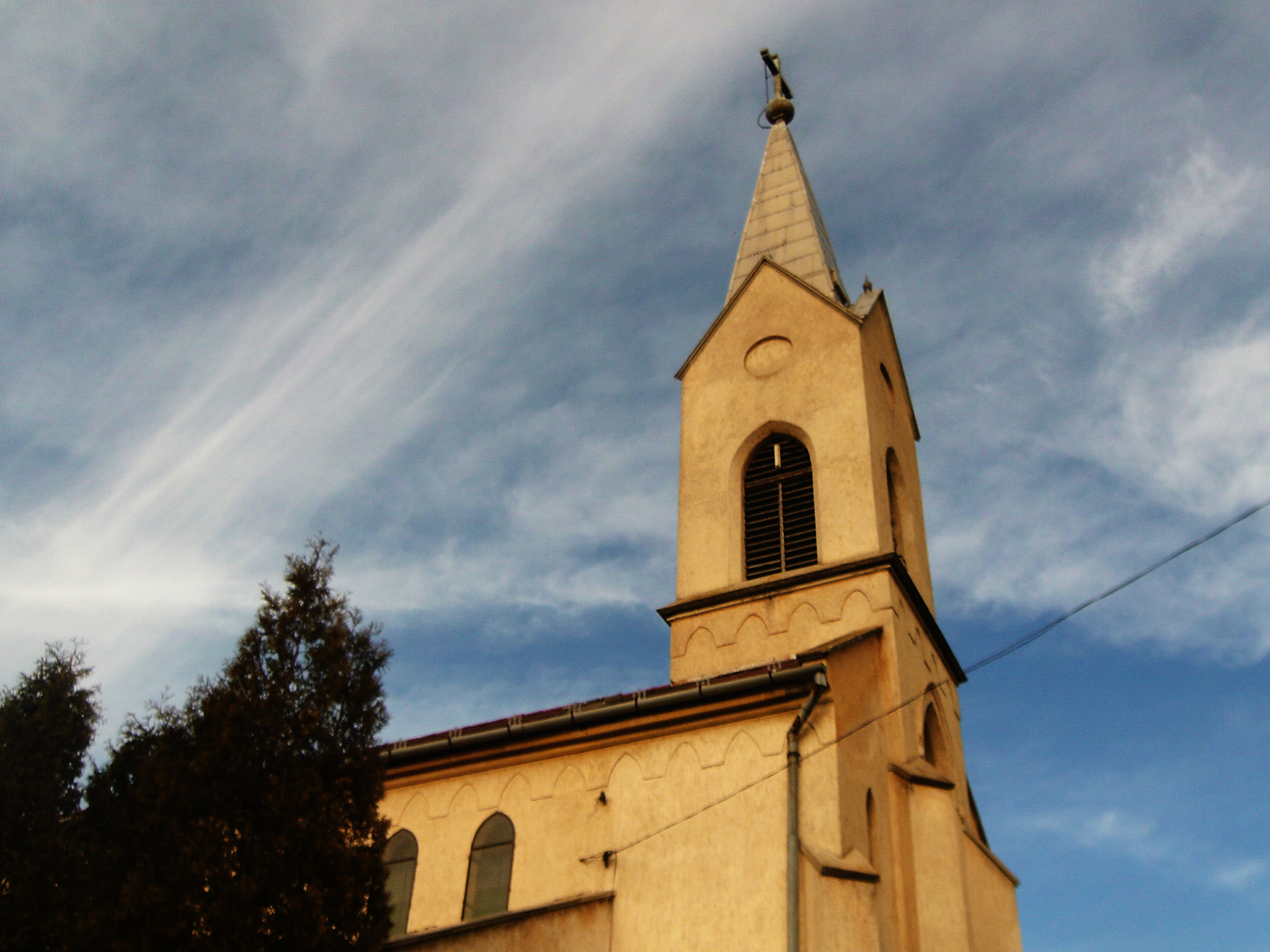 Baracs, Hungary